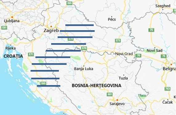 A map of the last Romance-speaking dwellers in Croatia and Bosnia